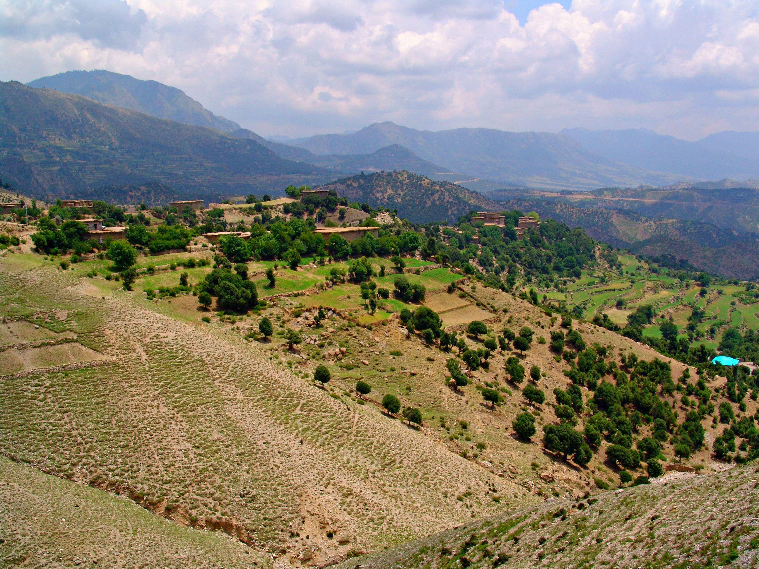 Tari Mangal is a small city on the Pakistani-Afghan border near Safēd Kōh and is part of the Federally Administered Tribal Areas, Pakistan. Tari Mangal is 23 km from Parachinar and 0.8 km from Ali Mangal Post. The Pashtun Tribe Mangal have been living in Tari Mangal for more than 600 years.